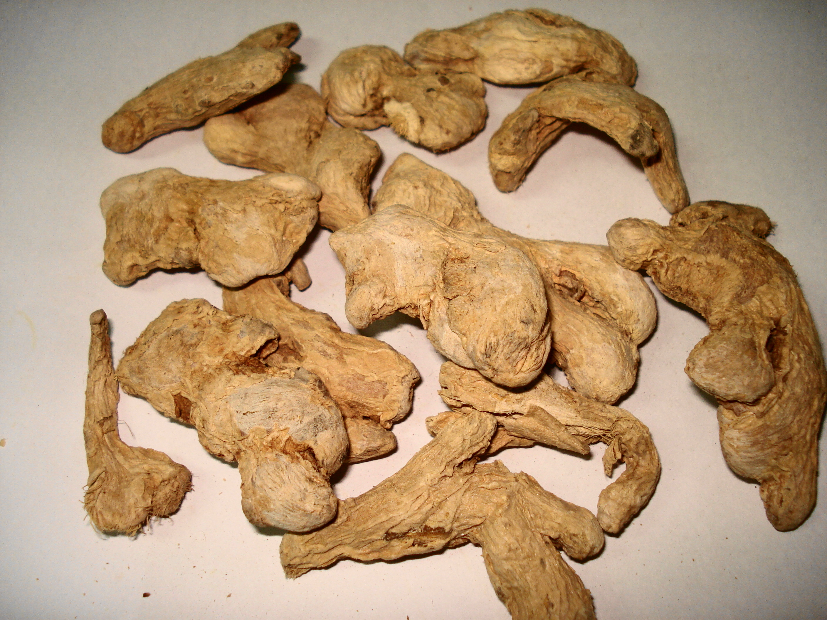 sonth